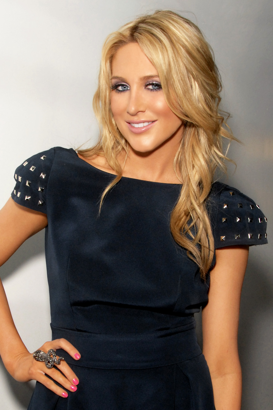 Stephanie Pratt at Mi6, West Hollywood, CA on February 2, 2010 - Photo by Glenn Francis